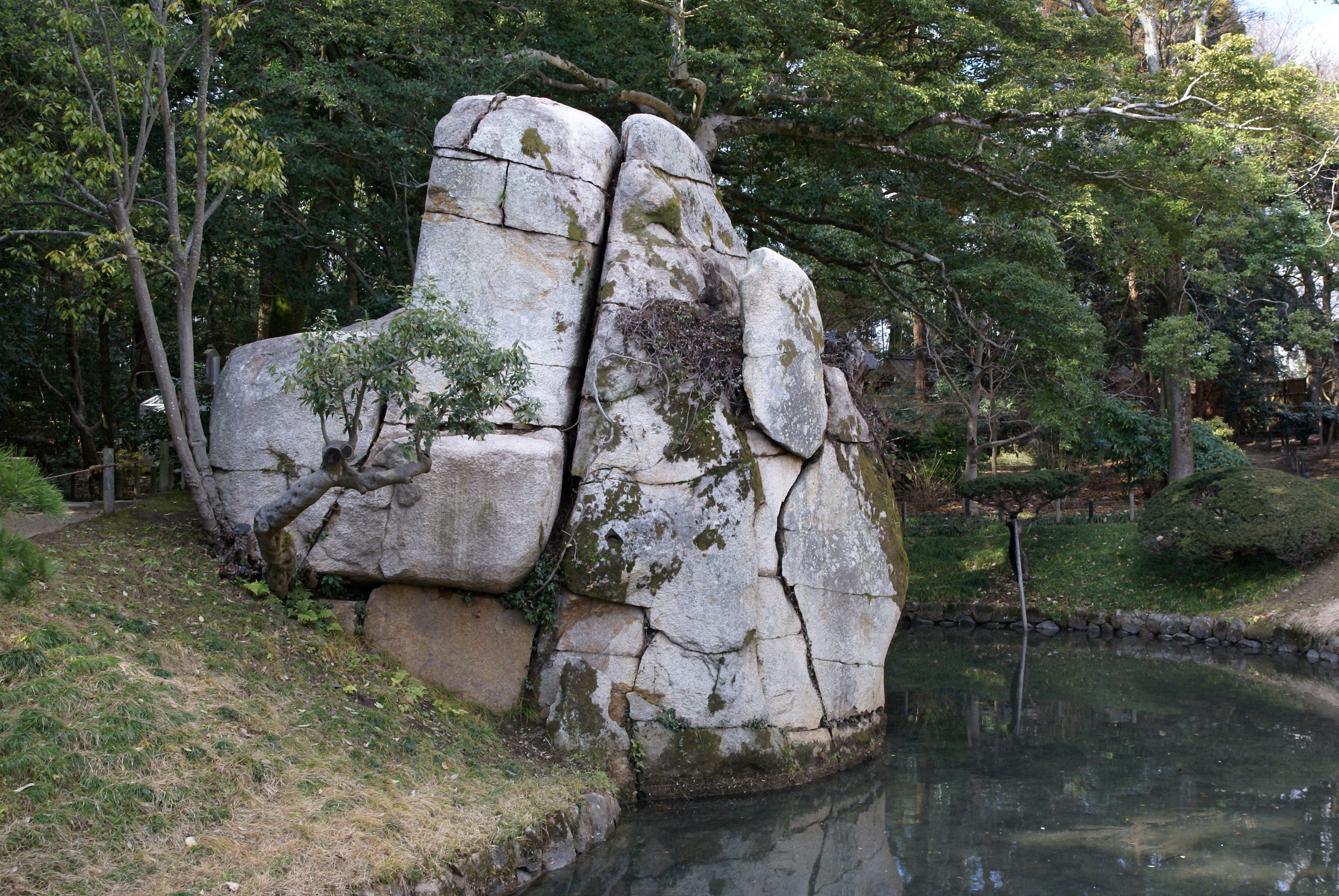 Korakuen in Okayama, Okayama prefecture, Japan